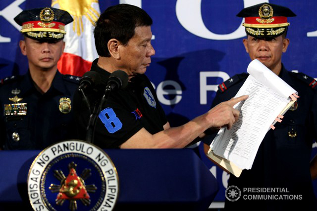 President Rodrigo Duterte shows a document containing the list of alleged narco-politicians during his speech at the Police Regional Office 13 Headquarters in Camp Rafael C. Rodriguez, Butuan City on October 6.